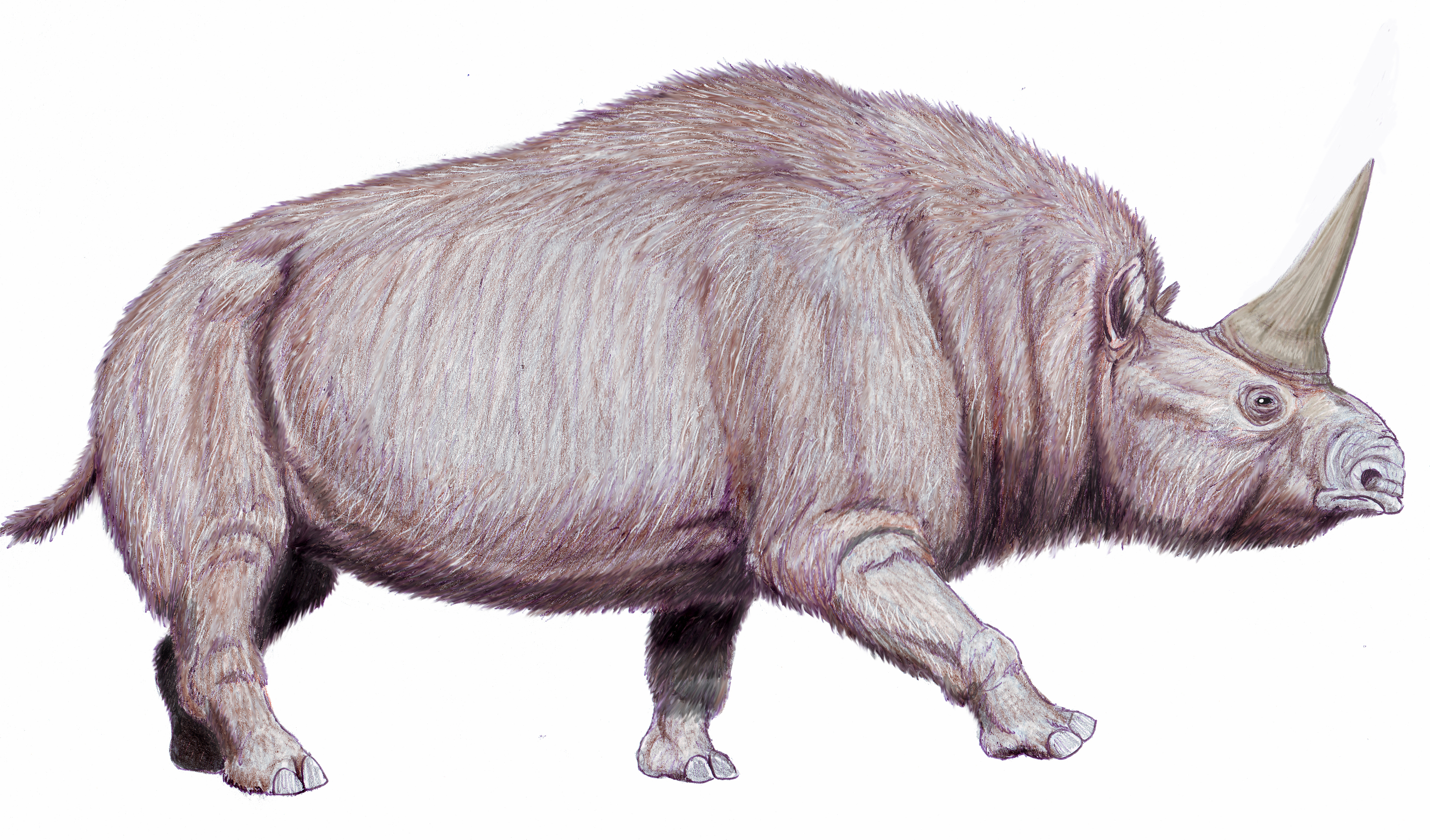 Reconstruction of Elasmotherium sibiricum from Middle-Late Pleistocene of Asia and Europe